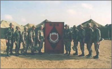 Desert Shield/Storm - Southwest Asia Oct ‘90-Jun ‘91